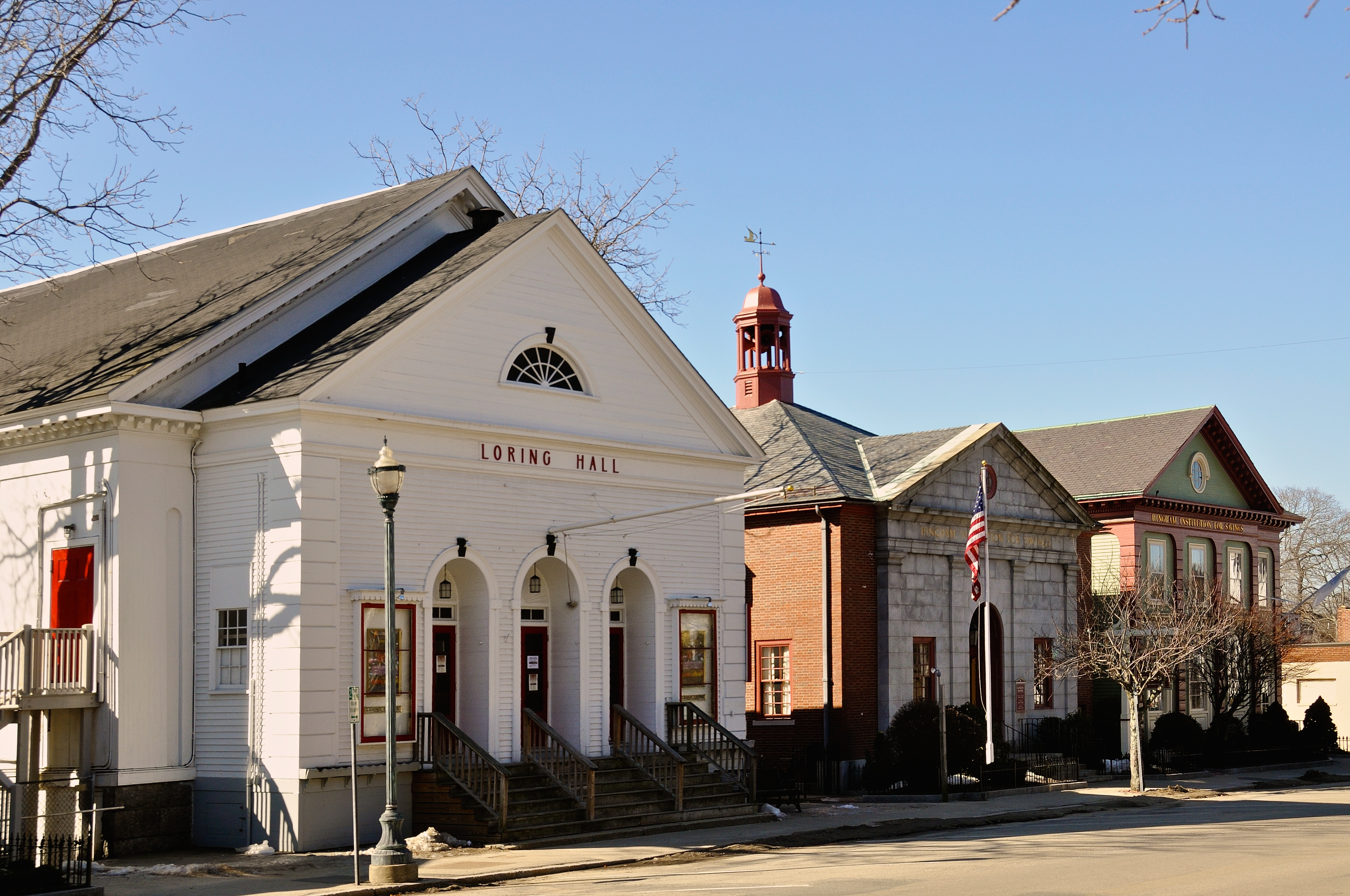 View of Main Street, Hingham, Massachusetts